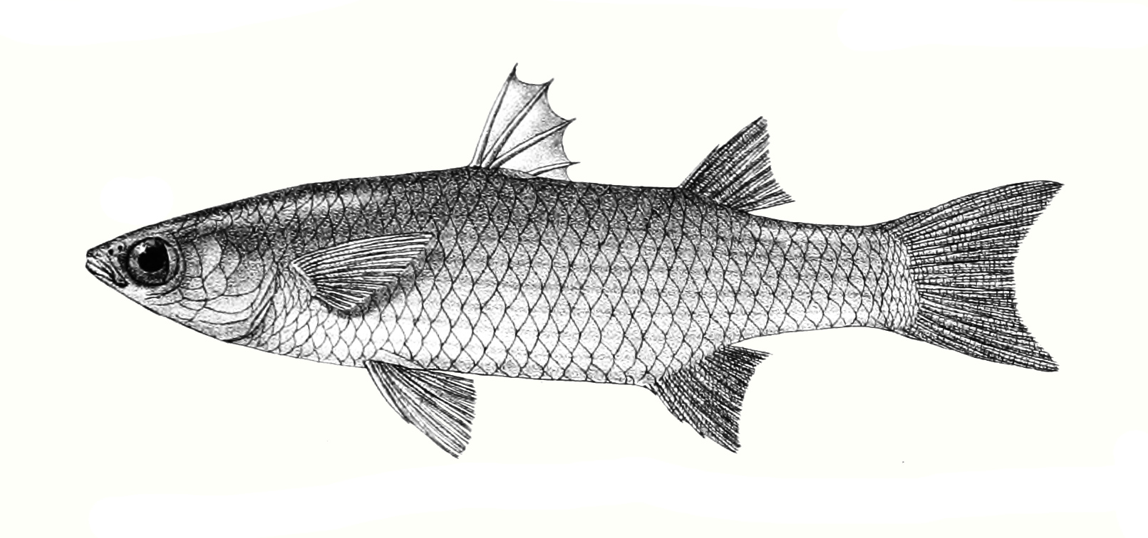 Liza parsia syn. Mugil parsiaThe species names / identity need verification. The original plates showed the fishes facing right and have been flipped here. Mugil parsia